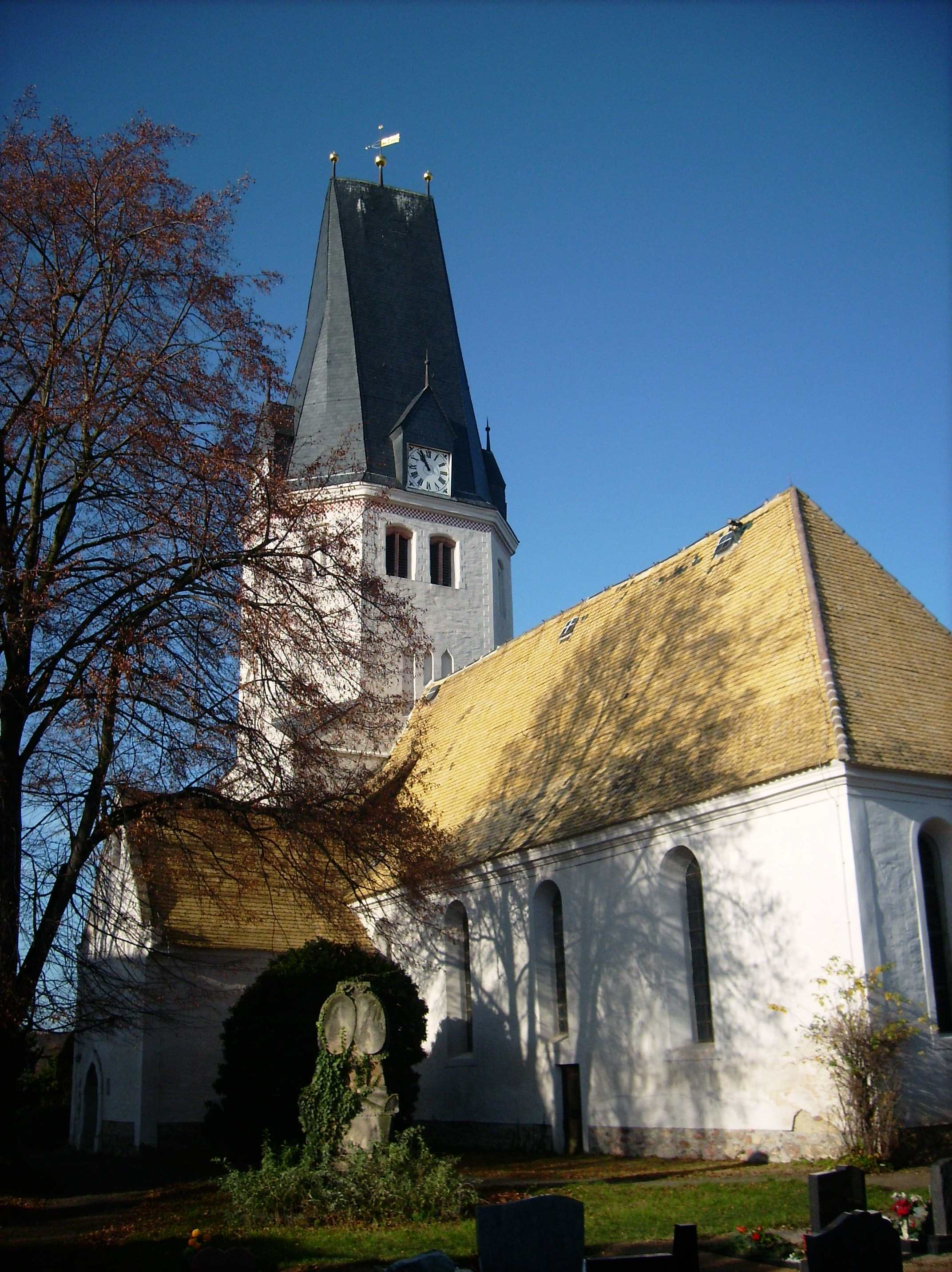 Church in Wiedemar (Nordsachsen district, Saxony)